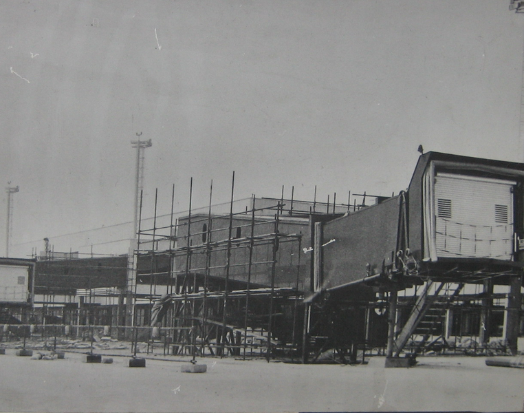 Modernisation project of Belgrade Airport